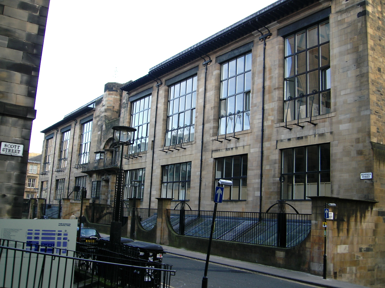 Main Building, Glasgow School of Art, Garnethill, Glasgow, Scotland. Made by User:Twid on 16 October 2005.